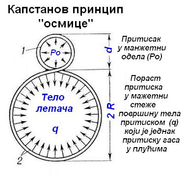 Anti-g suit effect is augmented by a small amount of pressure applied to the lungs (partial pressure breathing)